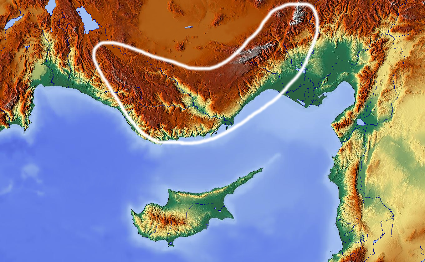 Taurus Mountains in Turkey